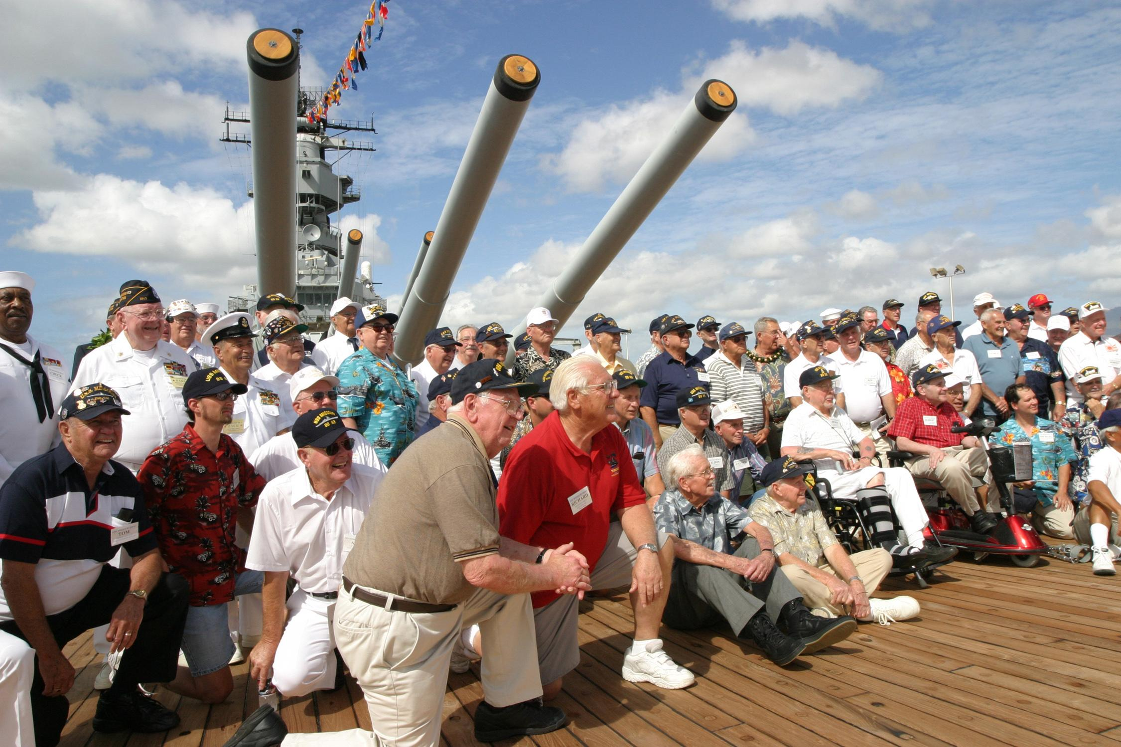 030902-N-3228G-003 Pearl Harbor, Hawaii (Sept. 2, 2003) -- Former crewmembers of the Battleship Missouri (BB 63) pose for photos shortly after the Anniversary of the End of World War II ceremony, held aboard the famous ship. More than 100 former Missouri crewmembers were present at the ceremony, hosted by the Missouri Memorial Association. The ceremony marked 58 years since General Douglas MacArthur and Fleet Admiral Chester Nimitz, along with other U.S. and Allied officers, accepted the unconditional surrender of the Japanese, ending World War II on the deck of the Battleship Missouri.